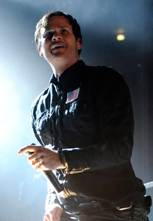 A photo of Tom DeLonge at an Angels & Airwaves concert in the Fall of 2008.